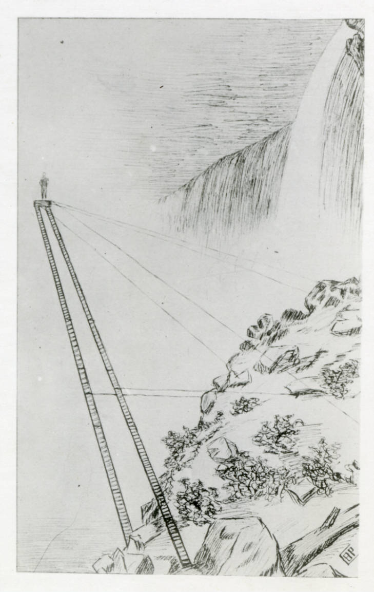 Drawing of Sam Patch on a platform. Typed and glued on the back: In the 1829 Sam Patch built a 97-foot ladder-like platform at the base of Goat Island and jumped into the river. It was his contention that some things can be done as well as others. Niagara Falls Public Library, Niagara Falls, N.Y. Identifierː ZNM006_0112